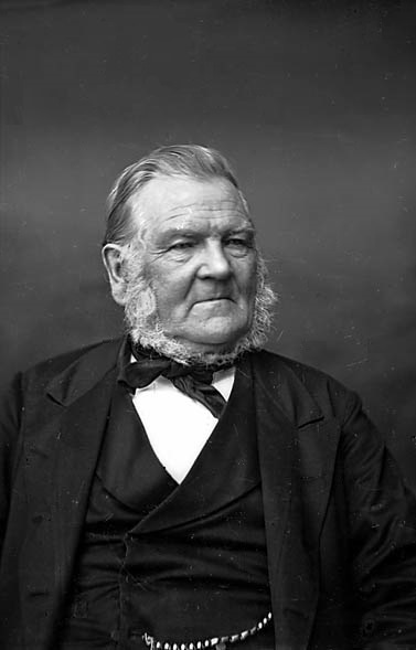 1 negative : glass, wet collodion, b&w ; 11 x 16.5 cm.